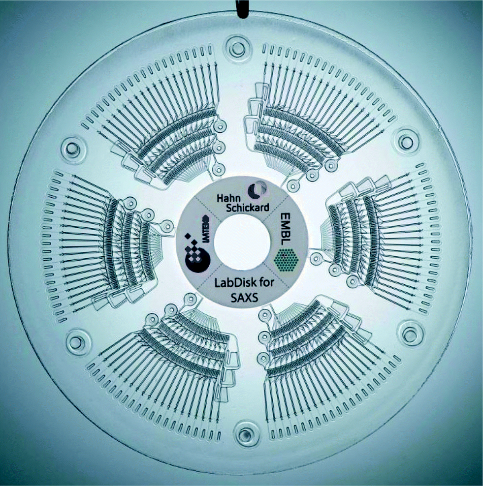 LabDisk for SAXS. Each of the six segments includes the aliquoting of the three input liquids, the combination and the mixing in different predefined concentrations. The mixtures then reside in the read-out chambers. Read-out can be performed on disk in a synchrotron beamline.